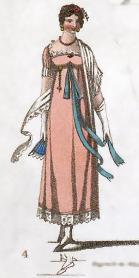 Illustration of a woman with her feet in the fourth position of dancing, from T. Wilson's Analysis of Country Dancing instruction manual, 1811.